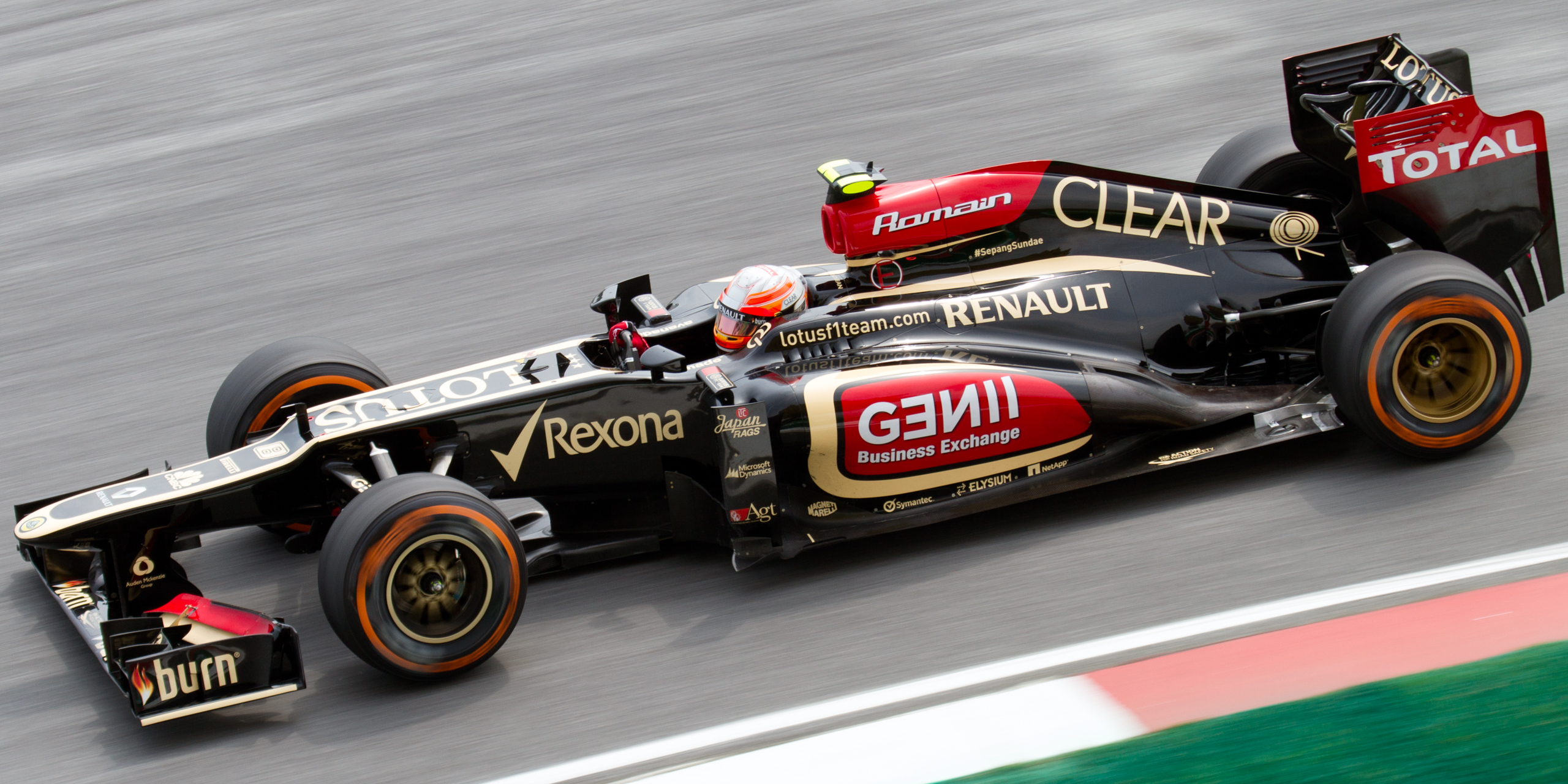 Formula One 2013 Rd.2 Malaysian GP: Romain Grosjean (Lotus) during the first practice session on Friday.